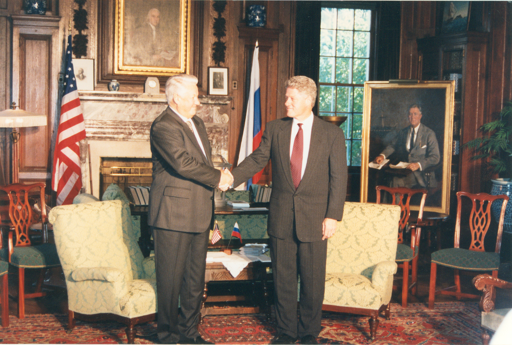 President Bill Clinton and Russian President Boris Yeltsin's meeting for a summit at the home of FDR on October 23, 1995. The four hour meeting took place privately in the library of FDR's home and inside the FDRL.